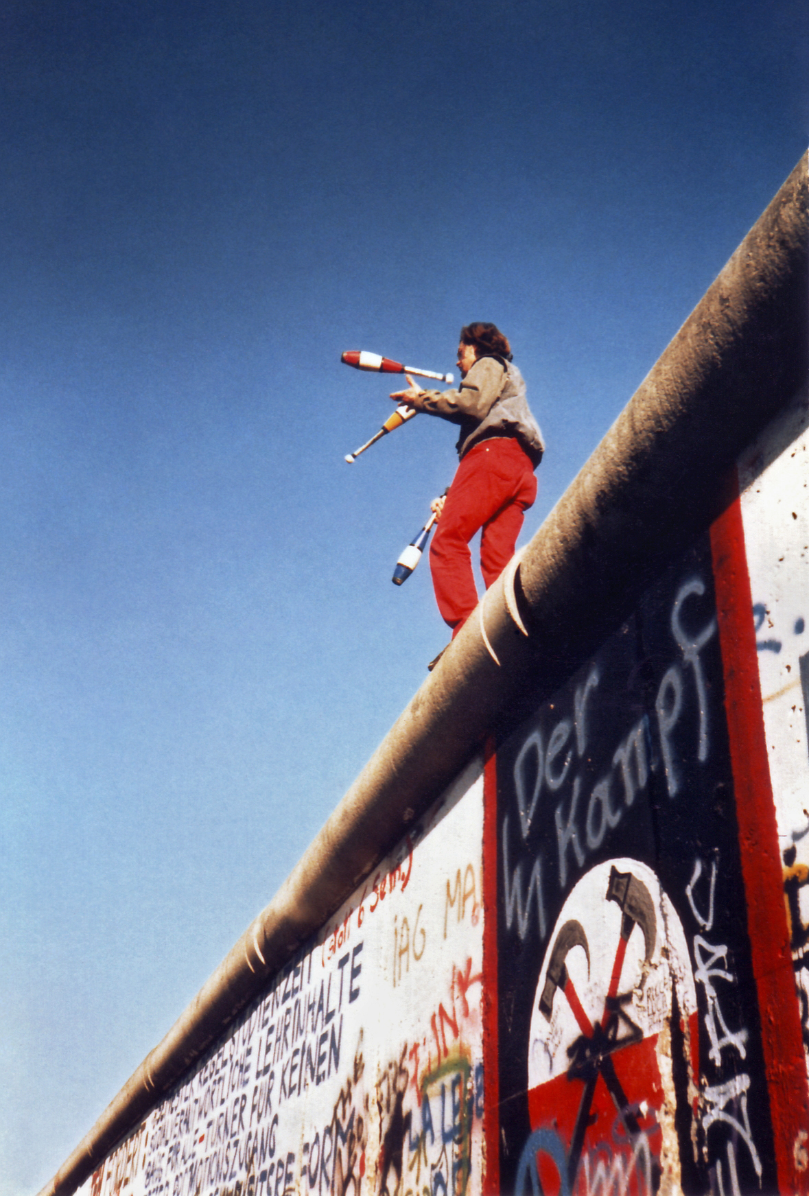 Juggling on the Berlin Wall on 16. November 1989. The black, white and red graffitti banner on the wall below the juggler depicts a pair of marching hammers, an allusion to the film Pink Floyd The Wall. The text sprayed over the banner reads "Der Kampf gegen [d]ie Mauer geht [weiter.]" (German), which means "the fight against the wall continues".